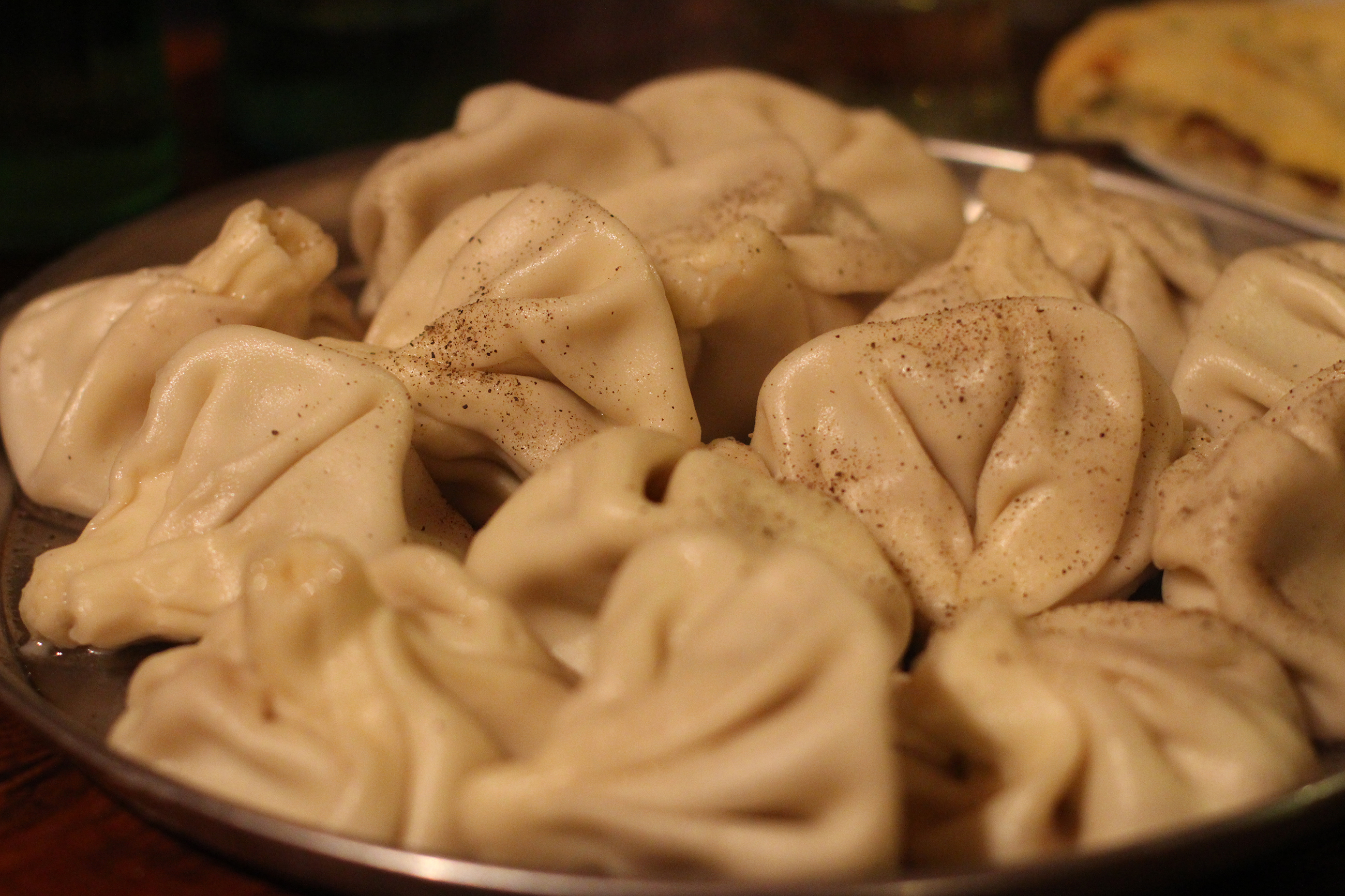 Traditional Georgian dish - Khinkali